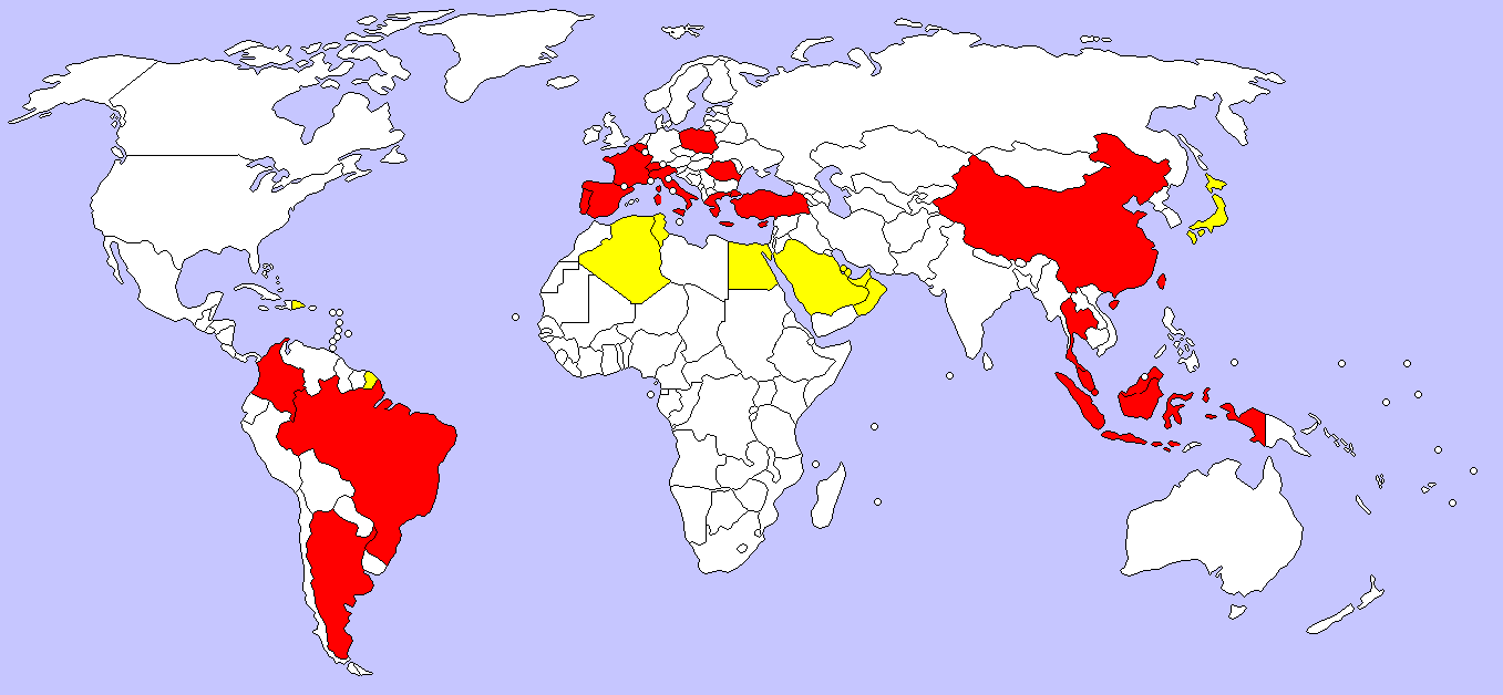 Countries where Group Carrefour is present. In red directly, in yellow trough franchisees.